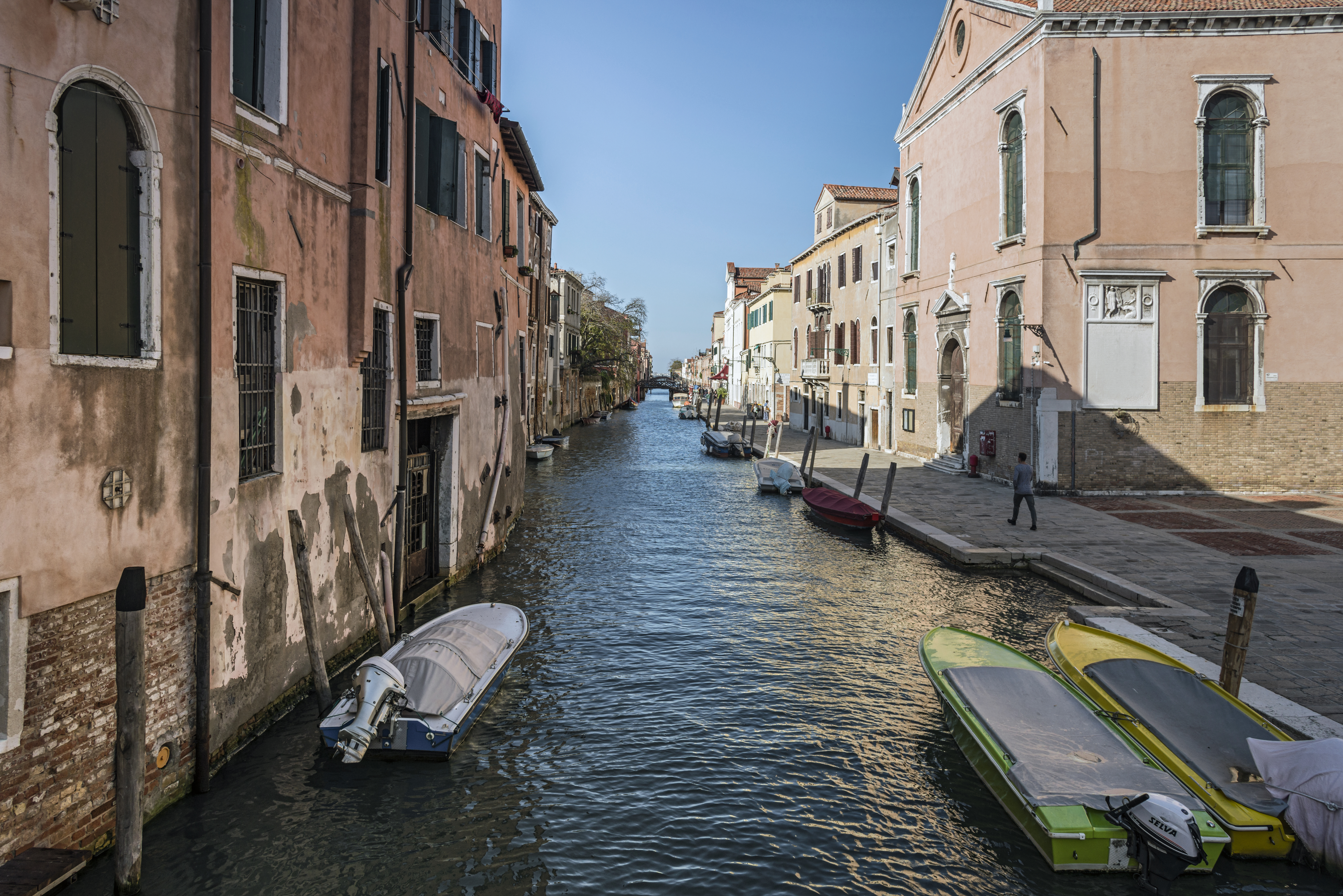 Rio Madonna dell'Orto in Venice. View from ponte Madonna dell'Orto.